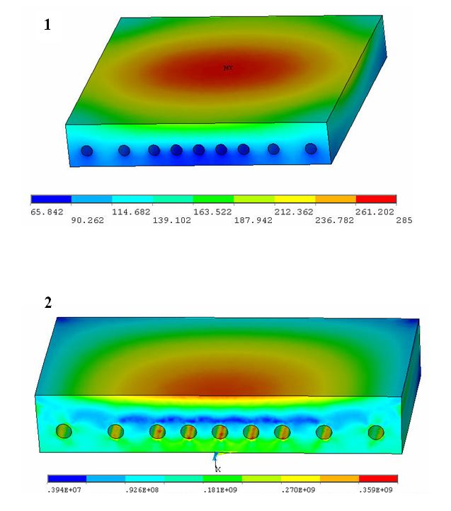 thermal stress in copper from FE calc.